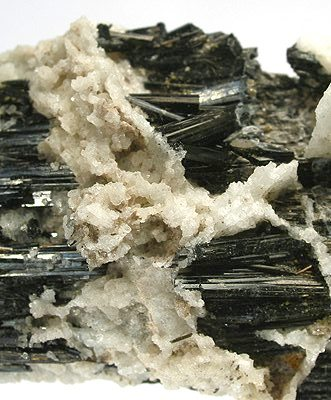 Stokesite, Schorl Locality: Urucum mine (Tim mine; Córrego do Urucum pegmatite), Galiléia, Doce valley, Minas Gerais, Southeast Region, Brazil (Locality at ) Size: 12.0 x 5.7 x 4.3 cm. This is a very rich specimen of the extremely rare tin species, stokesite. Although it occurs in other lcoales, in real crystals of interest to the collector, I think this is the only locality that has produced any quantity. Most of those crystals are in radial aggregates that looked as if they were glued together with natural cement, and are not exactly the prettiest of material. However, rarely, specimens like this with more individual, sharply terminated crystals can occur. This specimen must have 100 crystals, to 2mm or so, scattered about in rich veins on the surface of a large shard of schorl tourmaline.